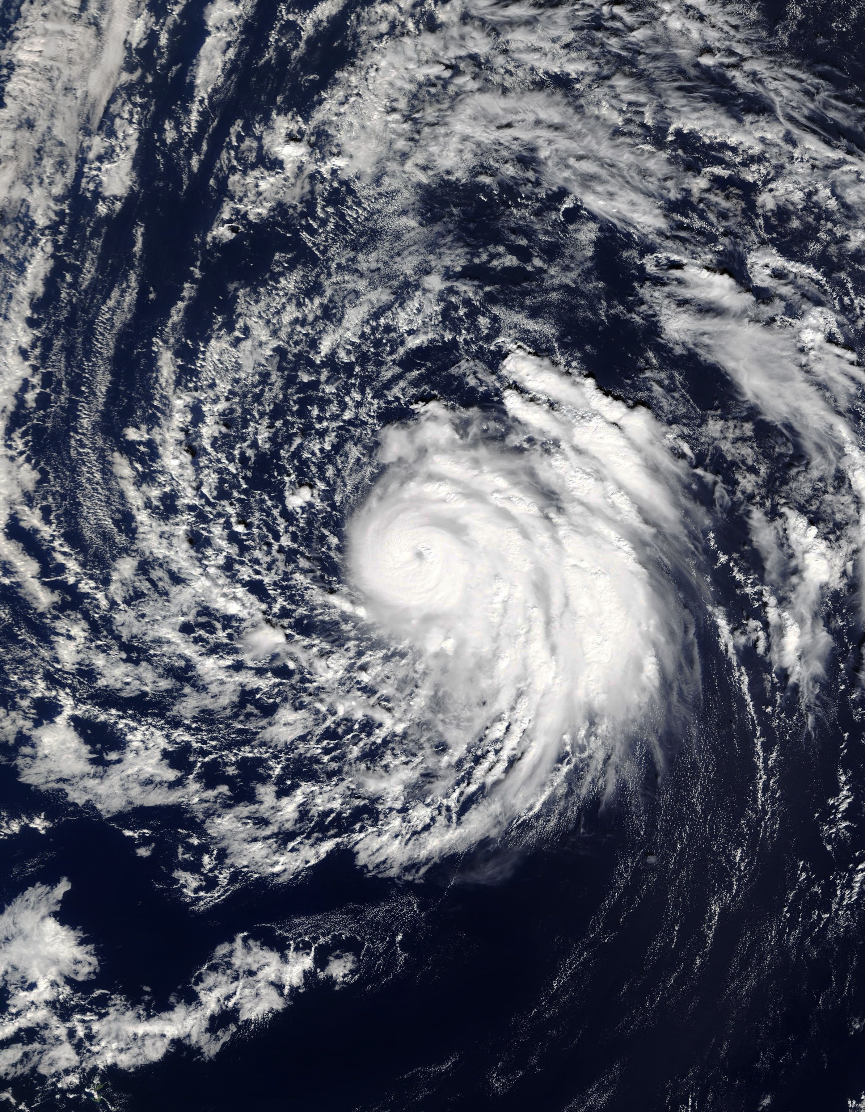 Hurricane Oscar in the Central Atlantic Ocean on October 29, 2018